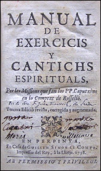 Joan Francesc de Prada Manual de exercicis (Perpinyà: G.S. Le Comte, 1758)